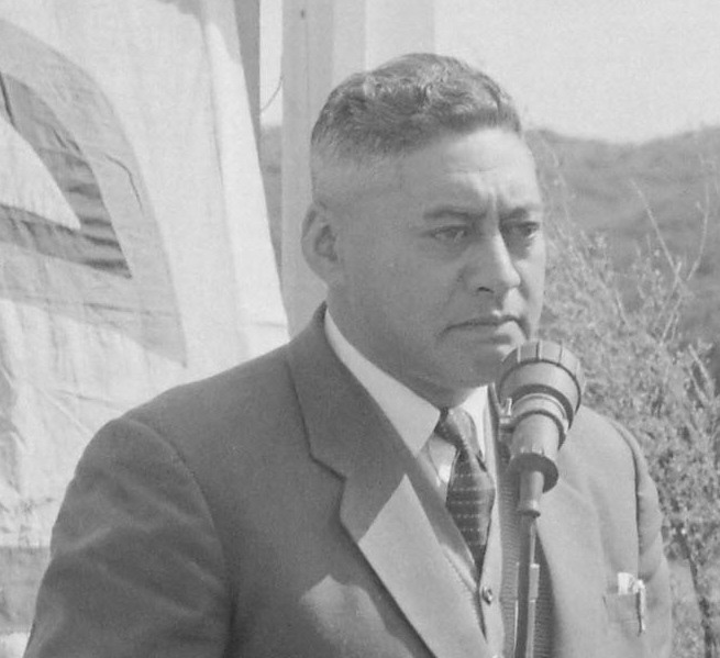 Unveiling of a commemorative plaque at Te Pōrere on 18 February 1961, where the last pitched battle of the New Zealand Wars took place in October 1869. Left to right: Hepi Te Heu Heu (speaking), ariki of Ngāti Tūwharetoa; Ormond Wilson, chairman of the National Historic Places Trust; the Governor-General Lord Cobham; Reverend W.N.Panapa, Bishop of Aotearoa; John Te Herekiekie Grace, Māori representative of the National Historic Places Trust. Photographer: R Fox Archives Reference: AAQT 6401 Box 37/ A64652 Material from Archives New Zealand